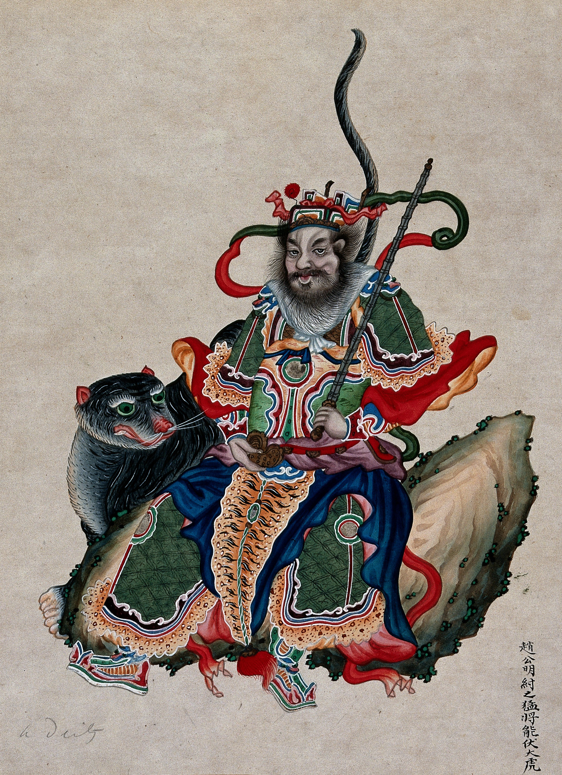 A protector deity. Many local indigenous deities were absorbed into the Buddhist faith, often as protectors. This deity riding on a tiger and brandishing a sword, protects the Buddhist teachings. The protector's role is also to safeguard from disease and negative influences A Chinese deity with sword accompanied by a tiger. Gouache painting by a Chinese artist. Iconographic Collections